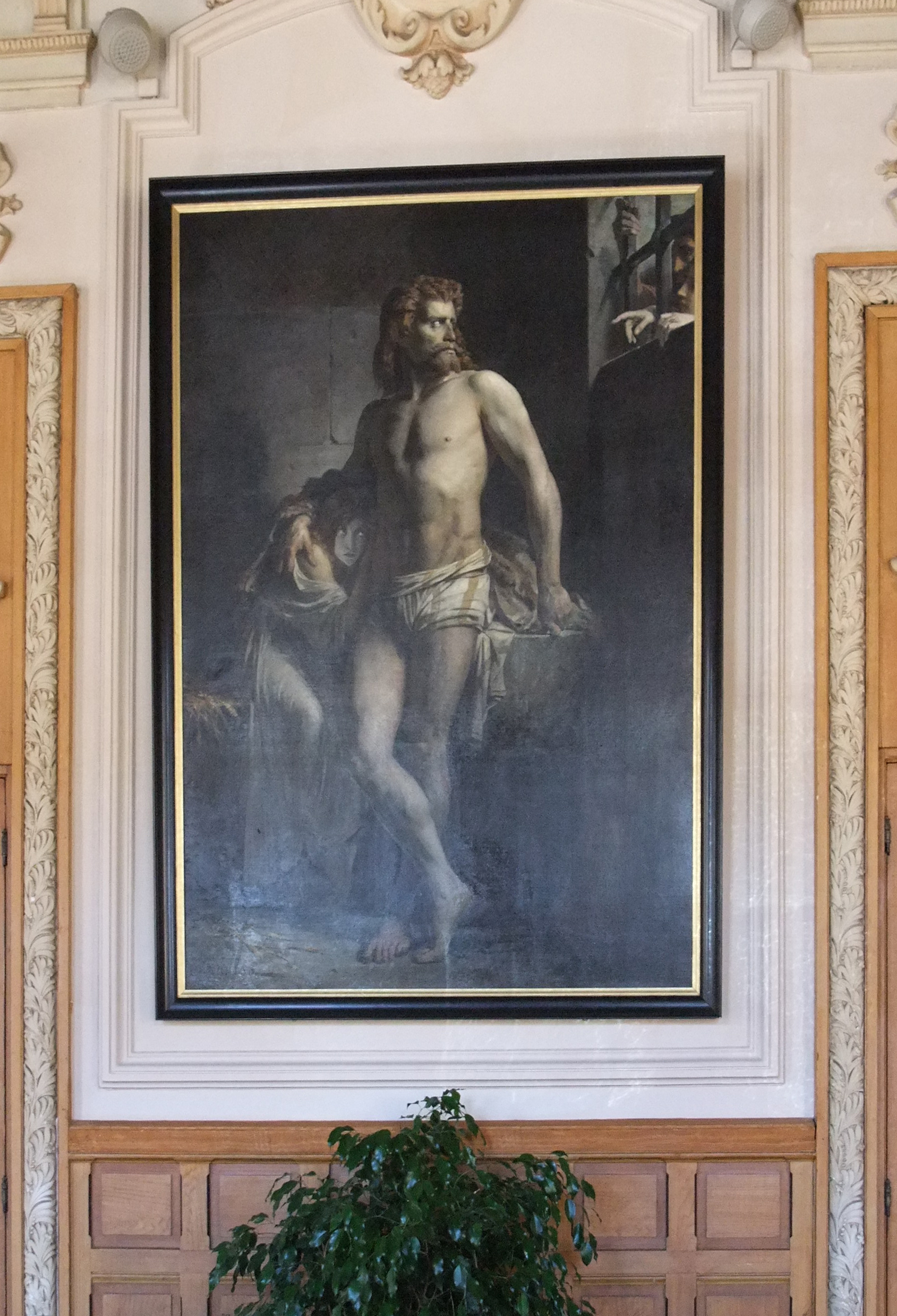 Vercingetorix, painting in the city hall of Autun, France